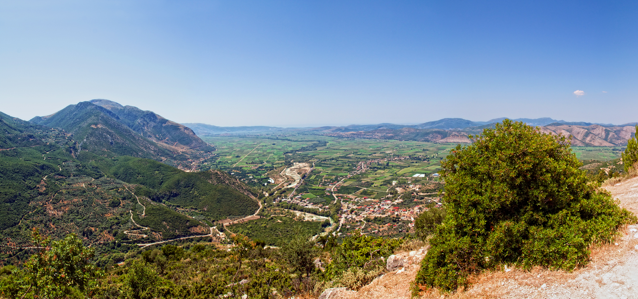 Plain of Acherondas river, Thesprotia, Greece